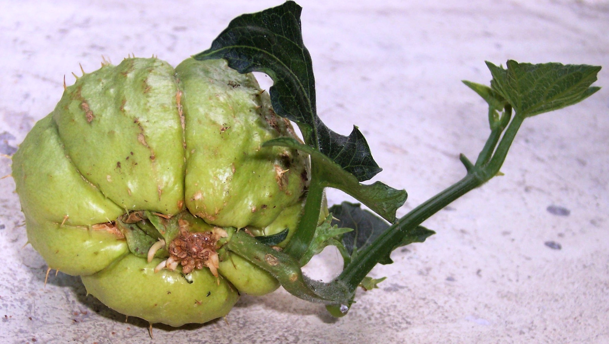 Chayote (Sechium edule) : the unique seed is not released and germinates inside the fruit, directly giving a new plant